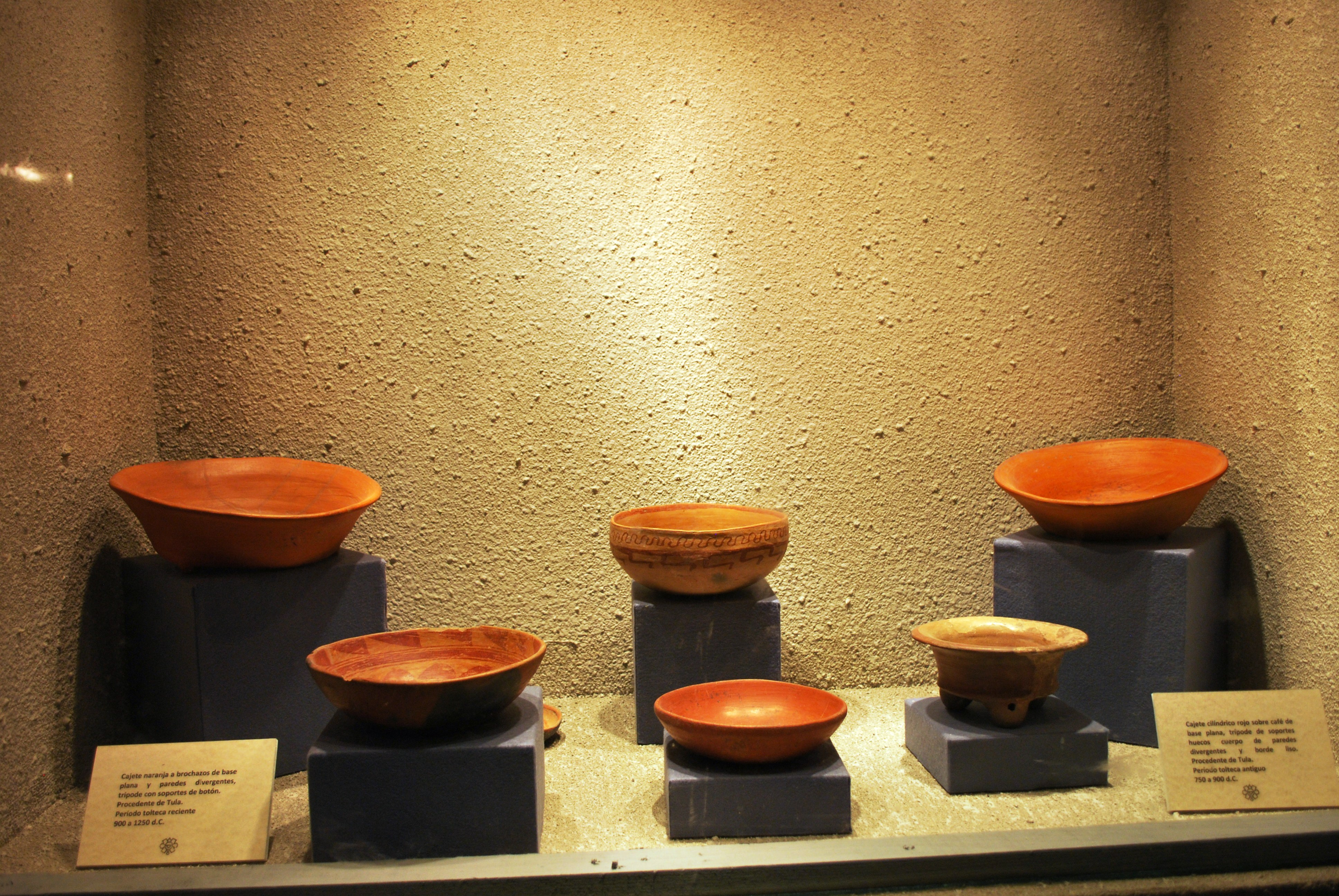 Pottery items from the archeological site of Tula in Hidalgo. On display at the Feria de Hidalgo Tourism Expo in Pachuca, Hidalgo, Mexico